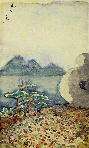 Watercolor painting of view from Oama hot spring. "My grave".